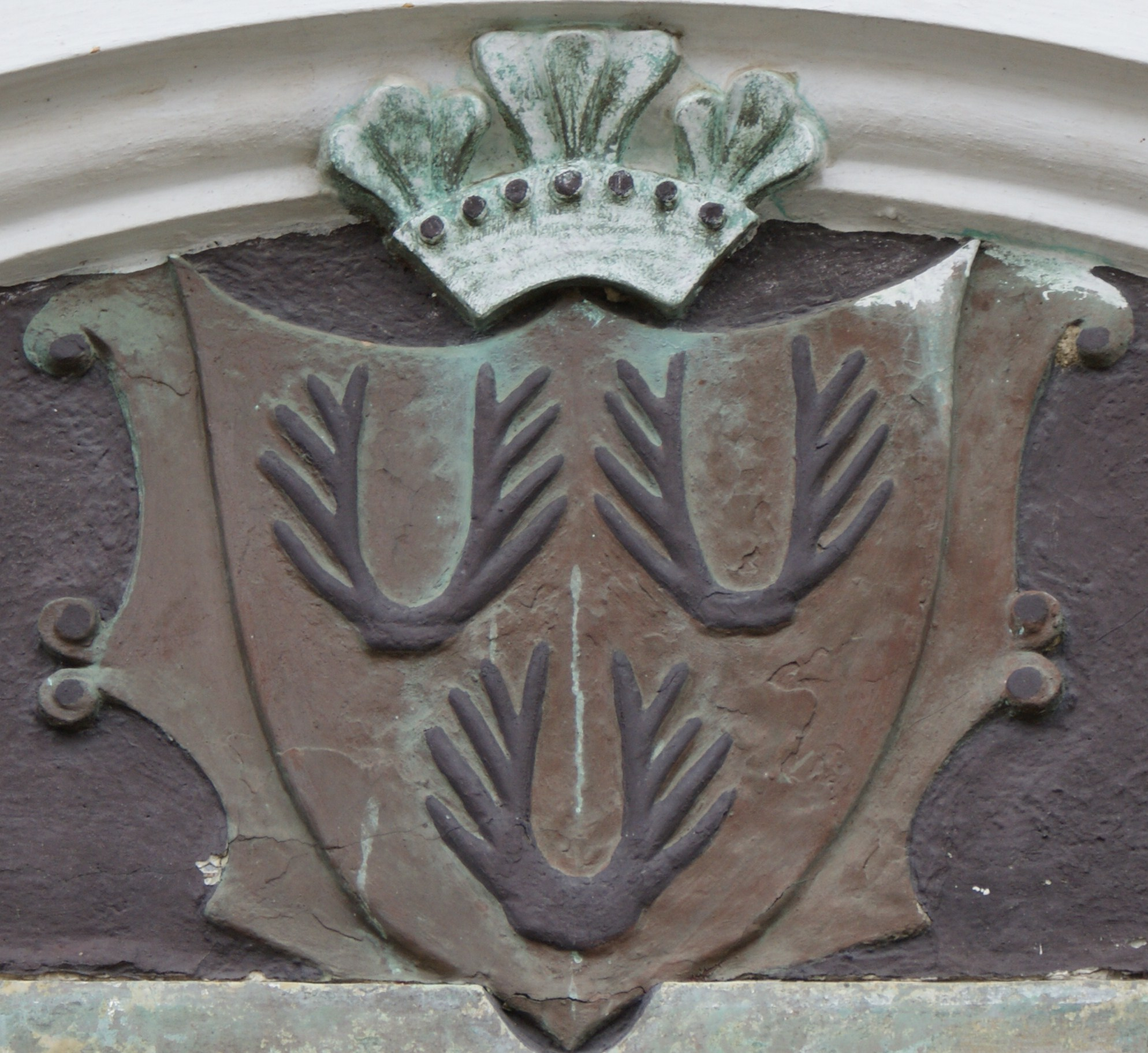 Coat of arms of the Czech z Vrtby house.